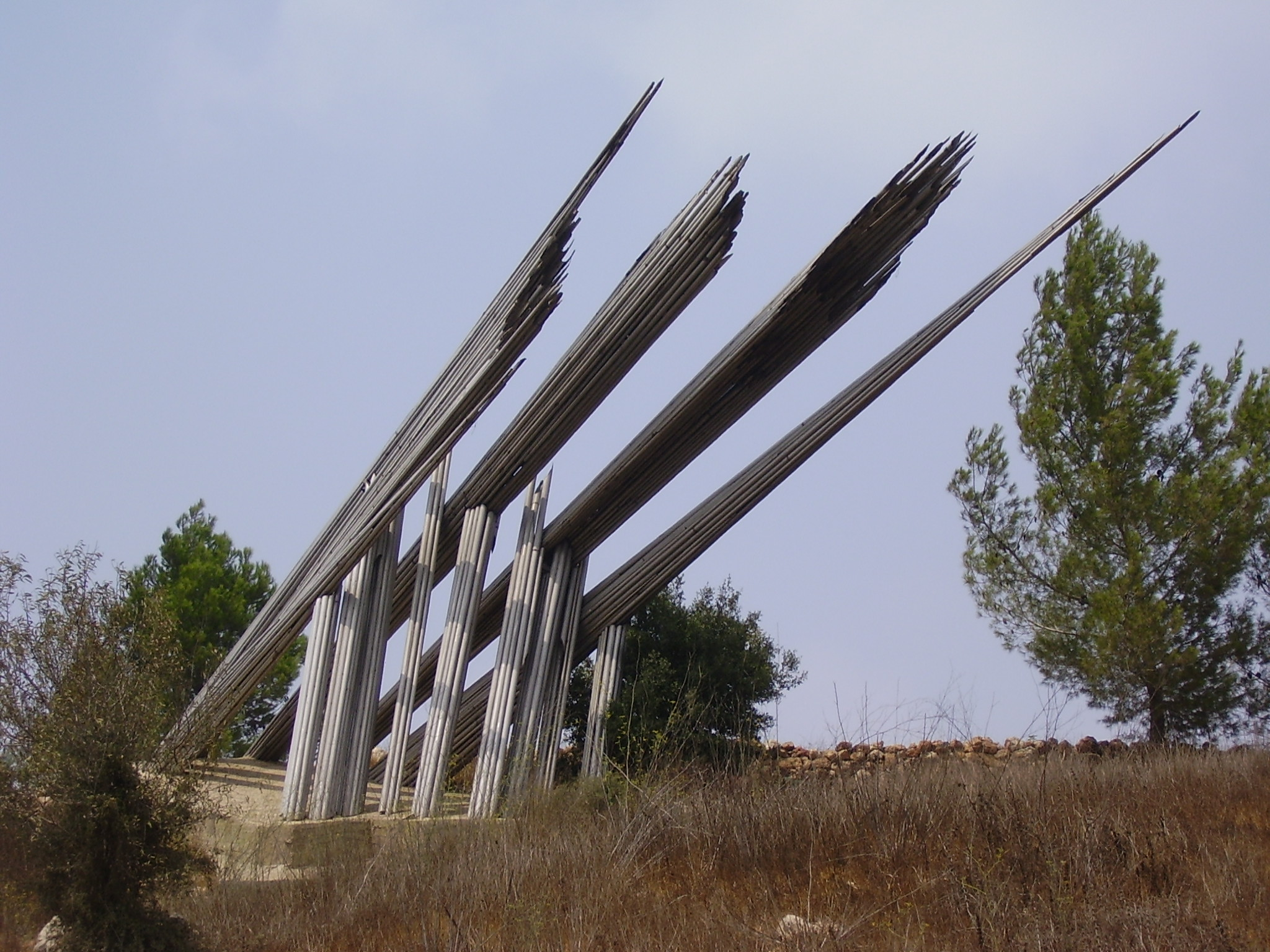 Memorial for the Pioneers of the Road to Jerusalem, independence war memorial, Sha'ar Hagai on the road to jerusalem, near Shoresh Interchange. Rabin Park, along Jerusalem Road, Route #1